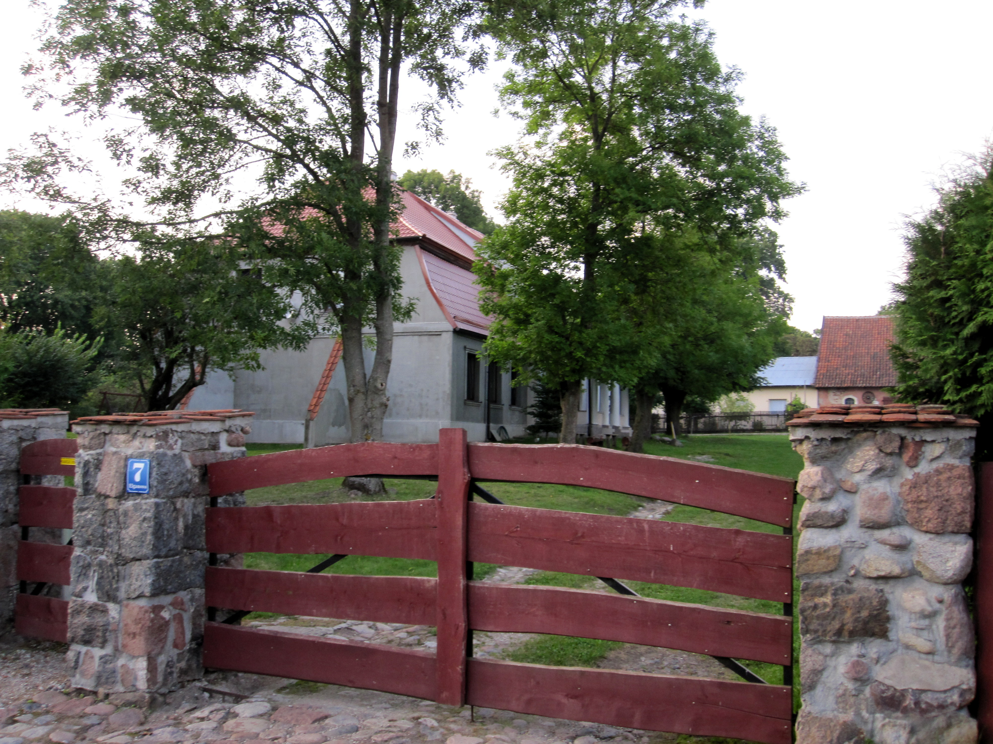 Manor in Elganowo